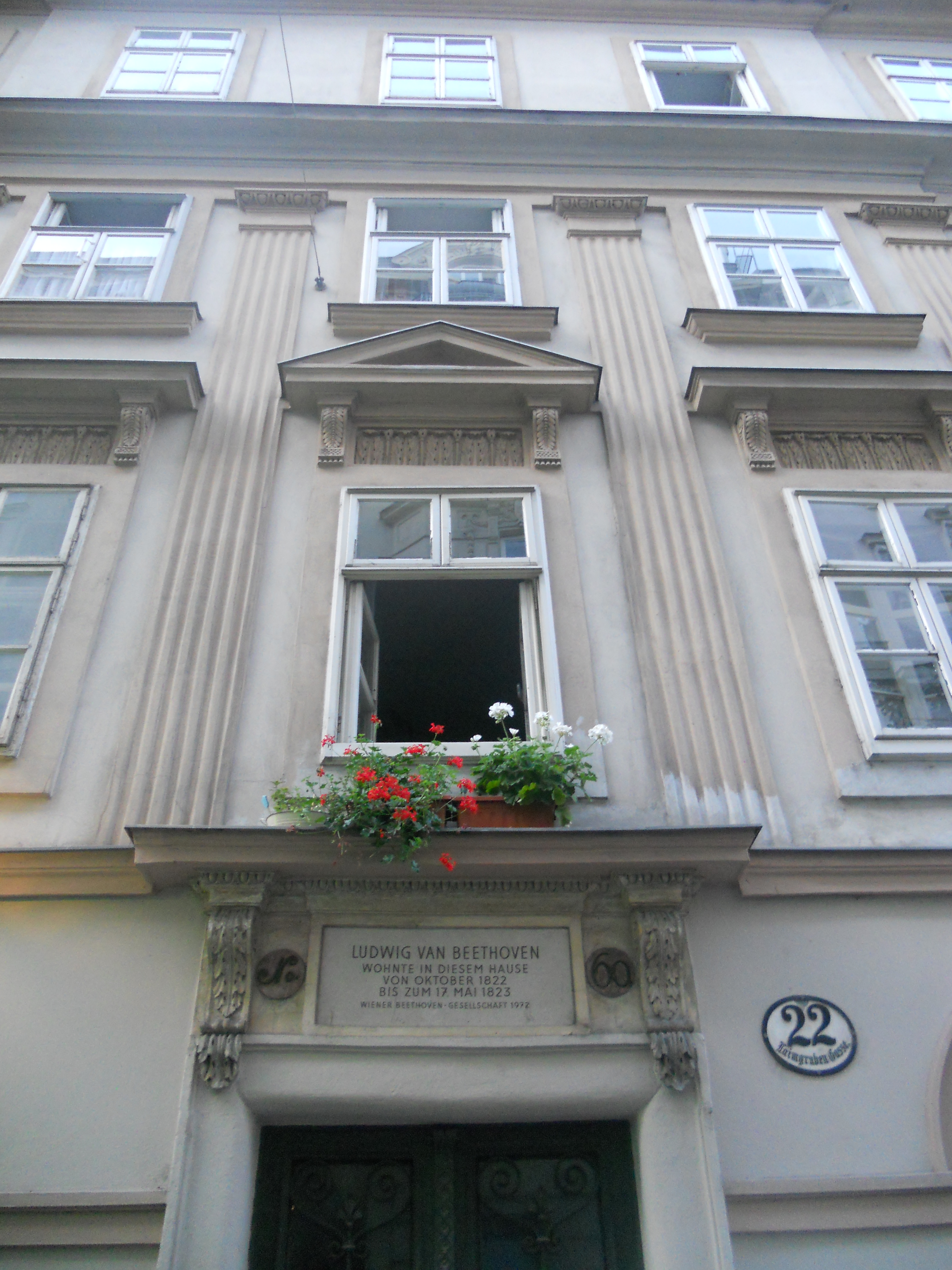 House Laimgrubengasse 22, one of the houses where Ludwig van Beethoven used to live